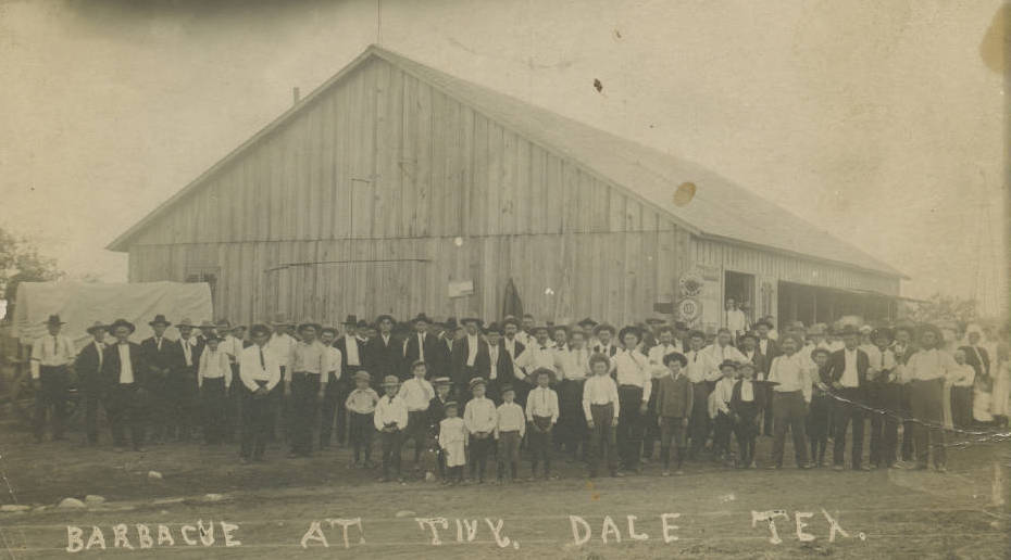 Title: Barbacue [sic] at Tivy, Dale [sic] Tex. Alternative Title: [Barbecue at Tivydale, Texas] Creator: Unknown Date: ca. 1904-1918 Part Of: George W. Cook Dallas-Texas Image Collection Place: Tivydale, Gillespie County, Texas Physical Description: 1 photographic print (postcard): gelatin silver; 9 x 14 cm File: a2014_0020_3_3_d_0144_r_tivydalebarbecue.jpg Rights: Please cite DeGolyer Library, Southern Methodist University when using this file. A high-resolution version of this file may be obtained for a fee. For details see the web page. For other information, . For more information and to view the image in high resolution, see: View the George W. Cook Dallas-Texas Image Collection